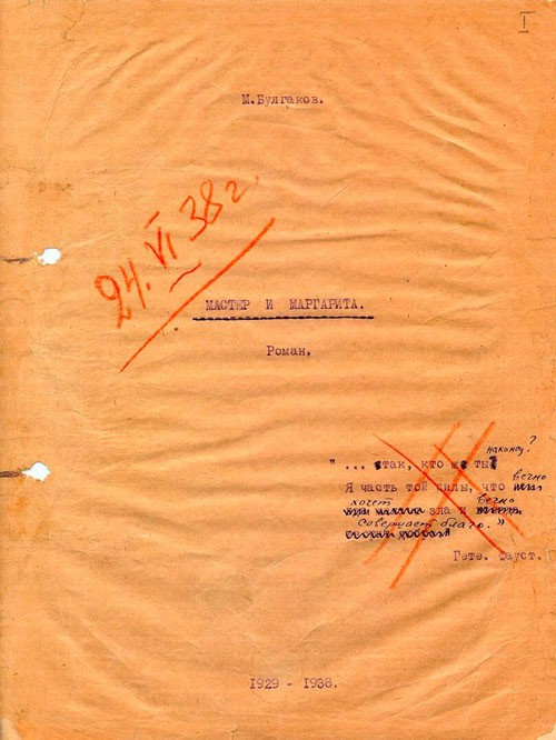 Cover page of the first typescript of Mikhail Bulgakov's novel 'The Master and Margarita', dictated by the author to his sister-in-law Olga Sergeevna Bokshanskaya